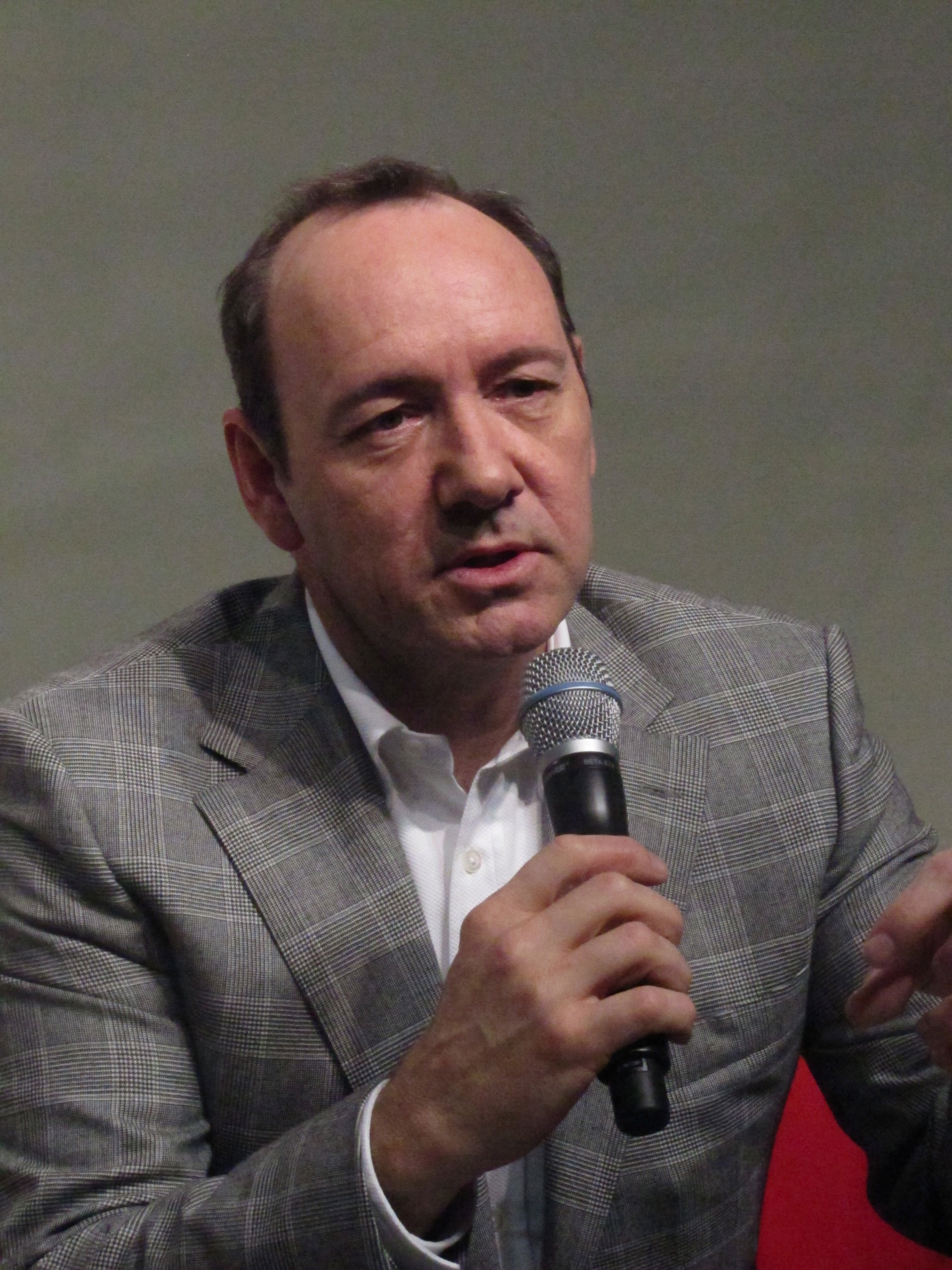 Kevin Spacey at the Audi and SRT press conference in Singapoe.